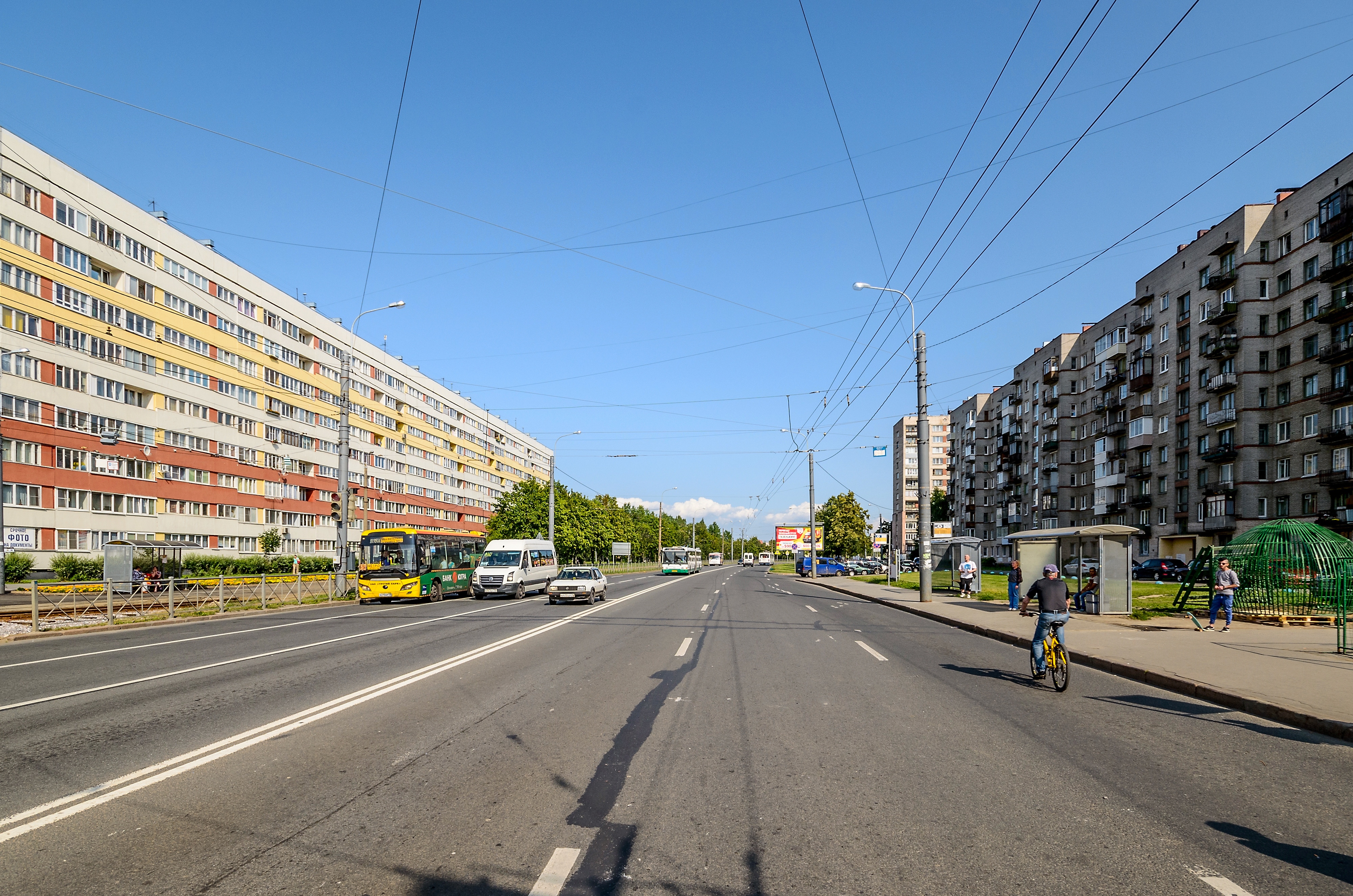 Veteranov Avenue in Saint Petersburg